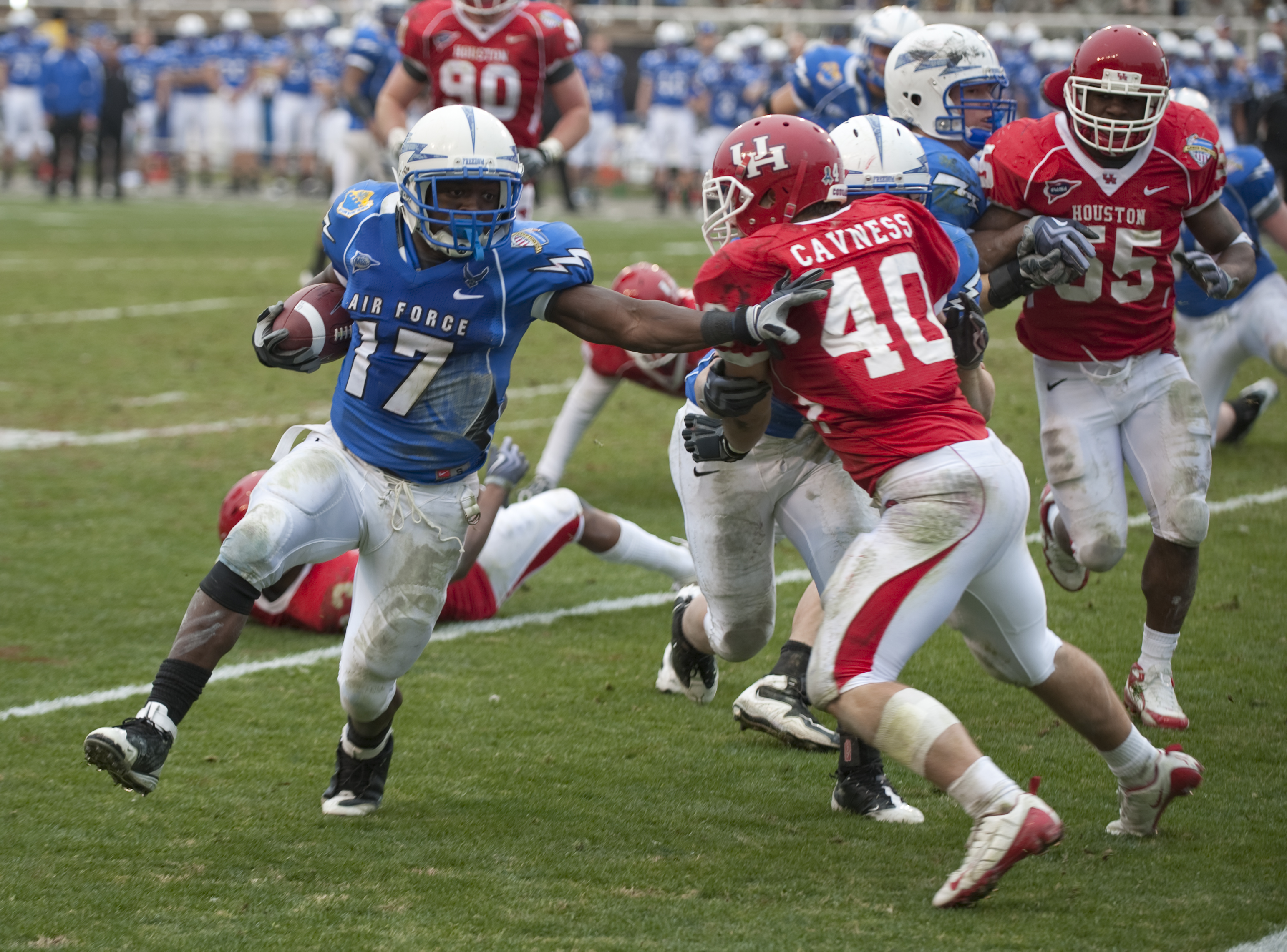 U.S. Air Force Academy running back Asher Clark runs for a touchdown during the Falcons' 47-20 defeat of the University of Houston Cougars at the seventh-annual Bell Helicopter Armed Forces Bowl at Amon G. Carter Stadium in Fort Worth, Texas, Dec. 31, 2009. VIRIN: 091231-N-0696M-073